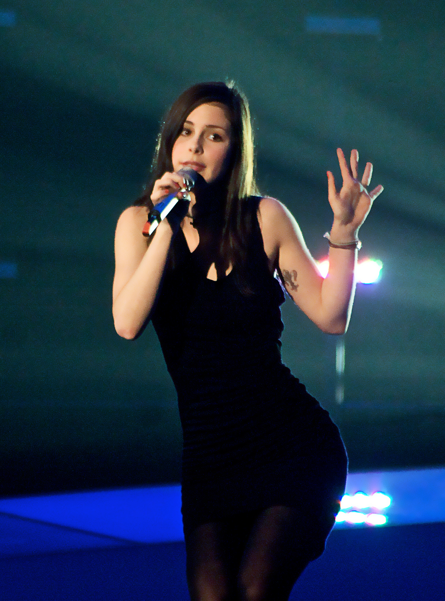 Germany's Eurovision Song Contest participant Lena Meyer-Landrut onstage in the Telenor Arena in Fornebu (during the rehearsals)